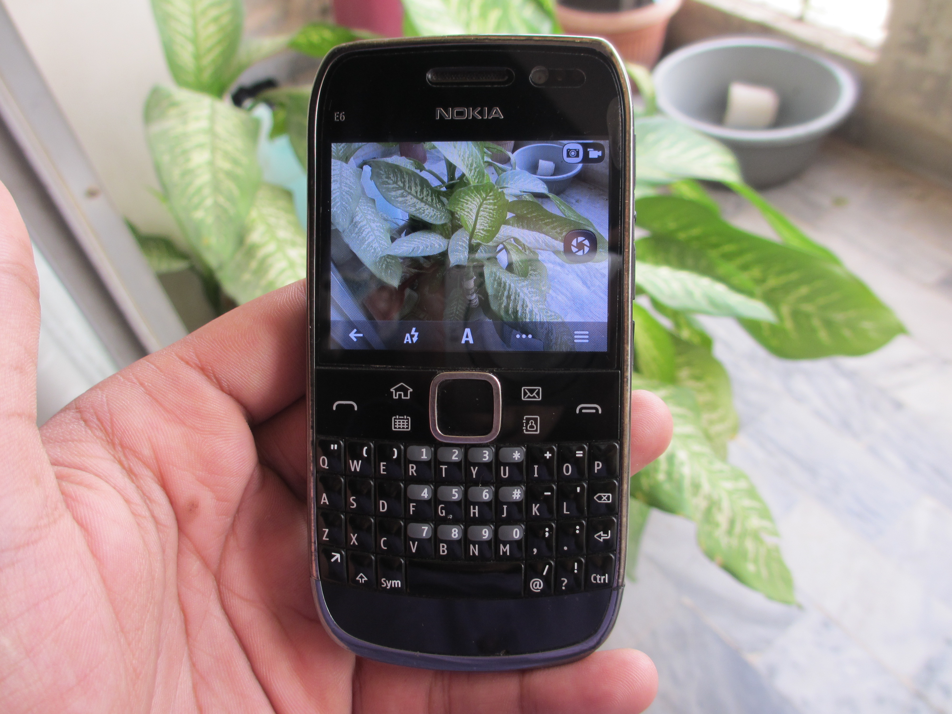 This image shows live quality of 8-Mega Pixel Camera of Nokia E6